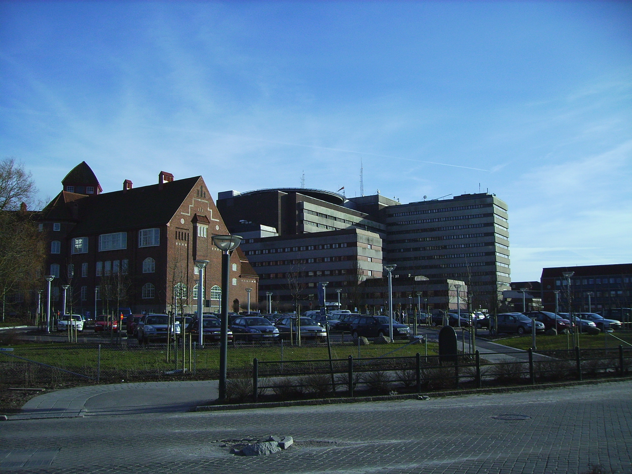 The University hospital in Lund, Sweden